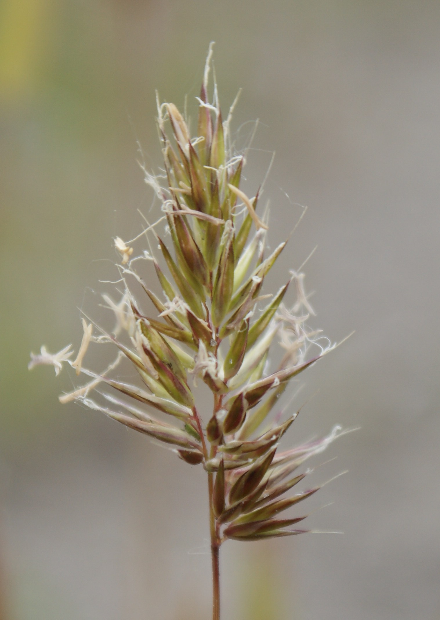 Anthoxanthum aristatum, inflorescence, Stepnica (NW Poland)